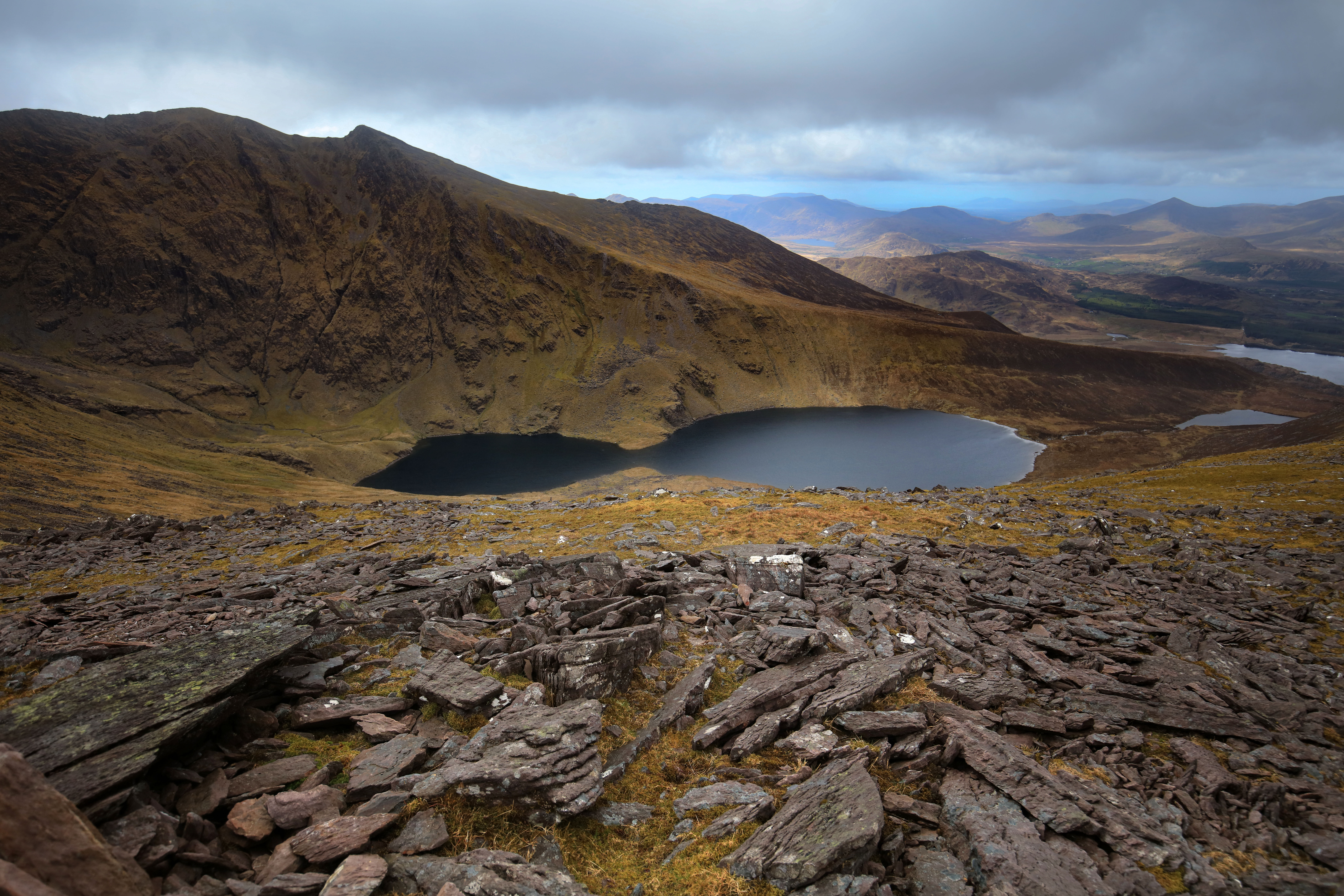 Summit of Caher East Top (far left) and Caher West Top (spike, centre left), as seen from across Lough Coomloughra just below the summit cairn of Stumpa Bharr na hAbhann.